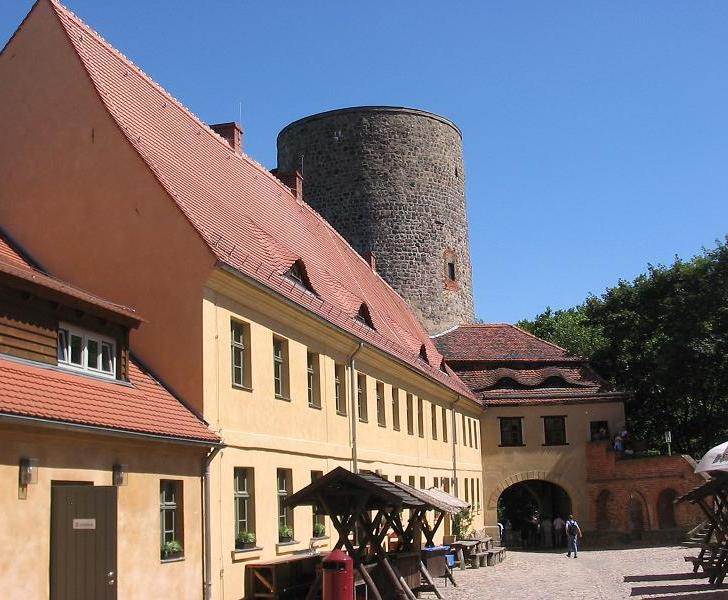 Rabenstein Castle (german for crowstone) in the Naturpark Hoher Fläming nearby Raben, built in the middle of the 12th century; hostel, keep, portal lodge. The village Raben is a part of the municipality Rabenstein/Fläming in the district Potsdam Mittelmark, state Brandenburg, Germany.